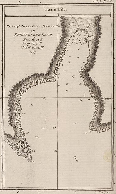 Map of Christmas Harbour (and the Baie de l'Oiseau) at the Kerguelen Islands established by James Cook's cartographer in 1777. Note : the geographic North is globally on the Western part of the map (published with a 90º rotation right).